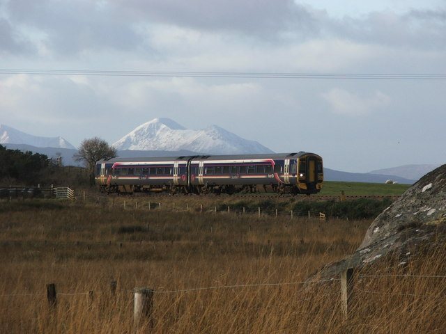 Train! The Inverness to Kyle of Lochalsh train, having just left Duirinish with the snow capped hills of Skye in the background.